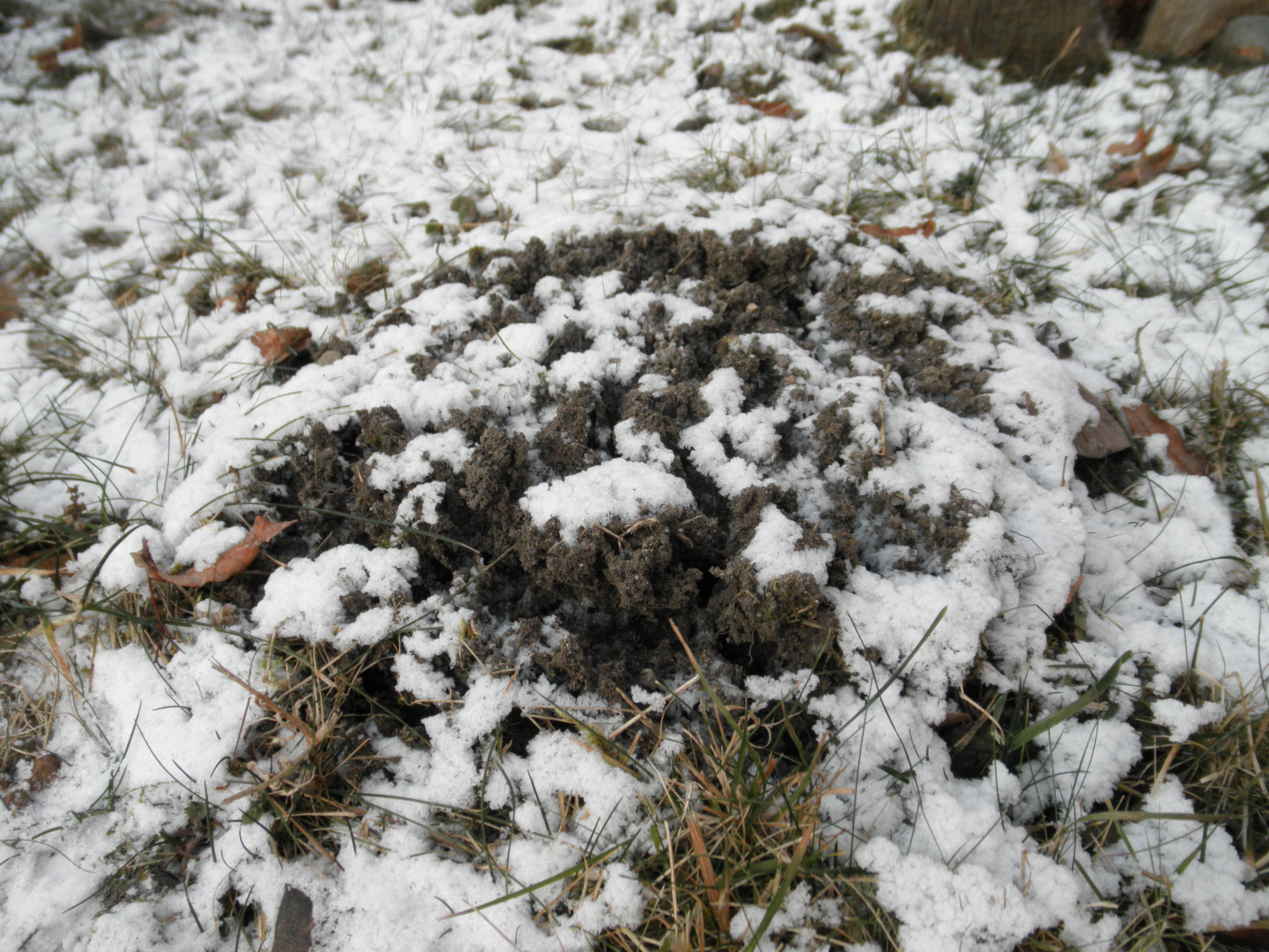 Photo of frost heaving on the spot of brown earth without cover of plants. Note that the effect of frost heaving is reduced on the area covered by grass.